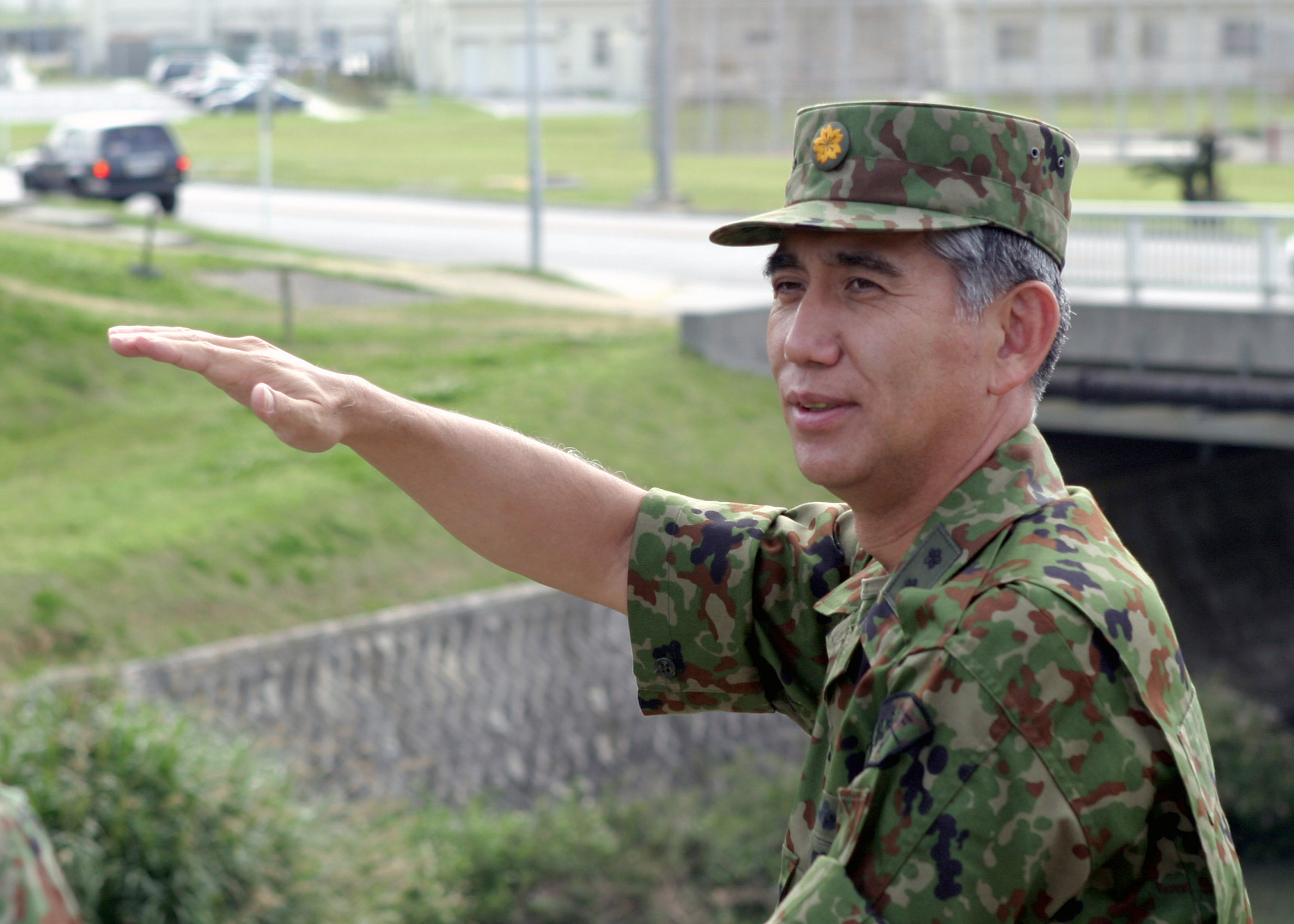 Japanese Ground Self Defense Force (JGSDF) Major General (MGEN) Eiji Kimizuka (left), Commanding General (CG), 1st Combined Brigade, visits an irrigation ditch located on Marine Corps Base (MCB) Camp Smedley D. Butler / Camp Foster, after observing a Force Protection Exercise (FPEX) conducted on MCB Camp Butler. The FPEX was held to test and improve base security at MCB Camp Butler from March 29 to April 1, 2004. VIRIN: 040401-M-1158H-051